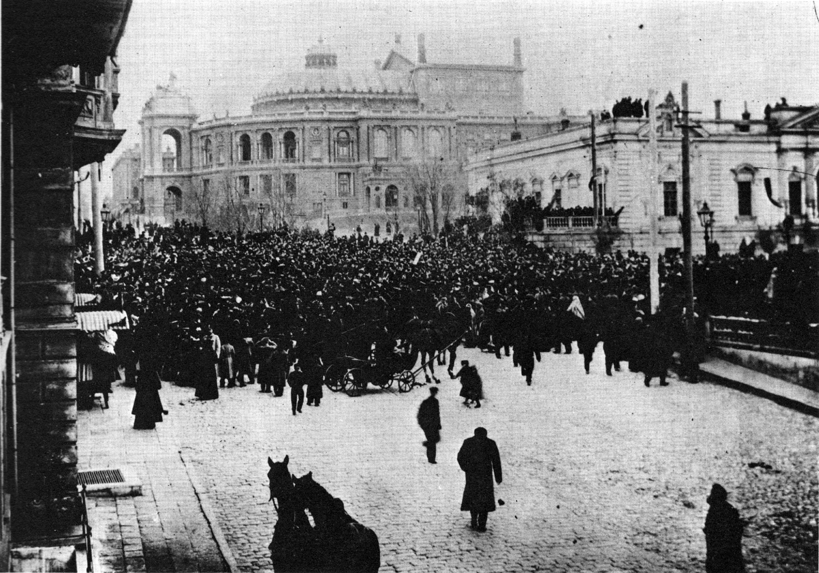 Event in Odessa in 1918 or 1919 during the Russian revolution and the French military intervention in the Black Sea.